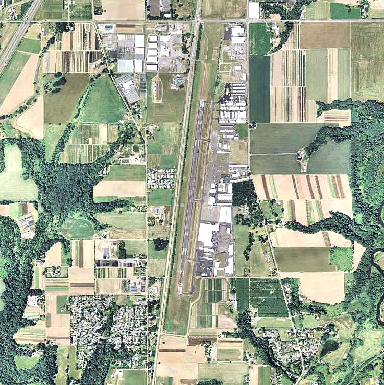 USGS digital orthophoto of Aurora State Airport - Oregon